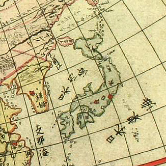 Japanese world map published in 1792, by Shiba Kōkan, “Complete Map of the Earth” (地球全図, Chikyū Zenzu?).